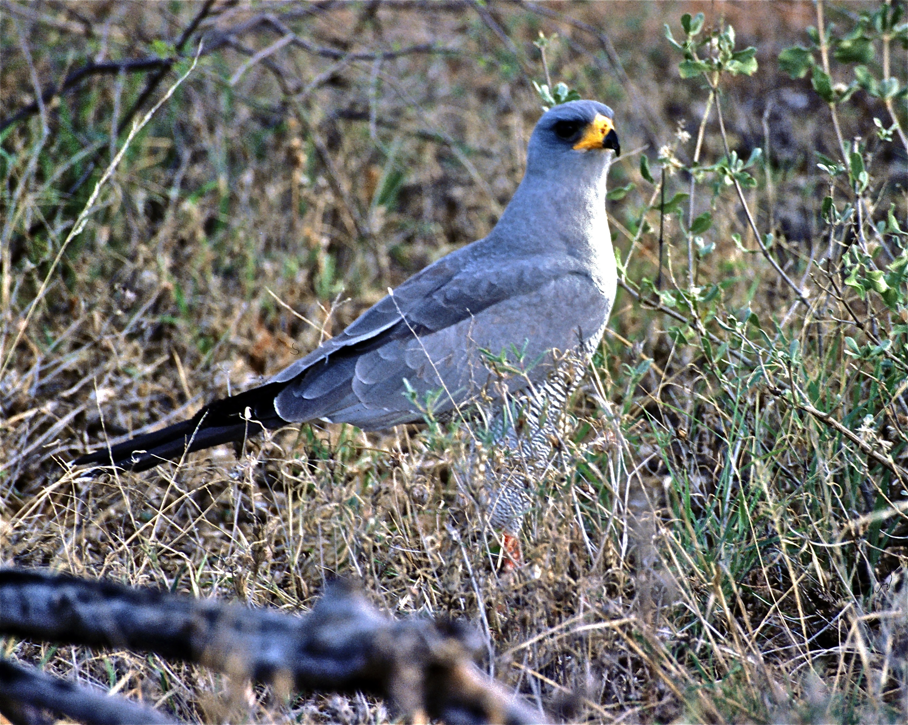 Samburu National Reserve, KENYA Scanned slide from 2004